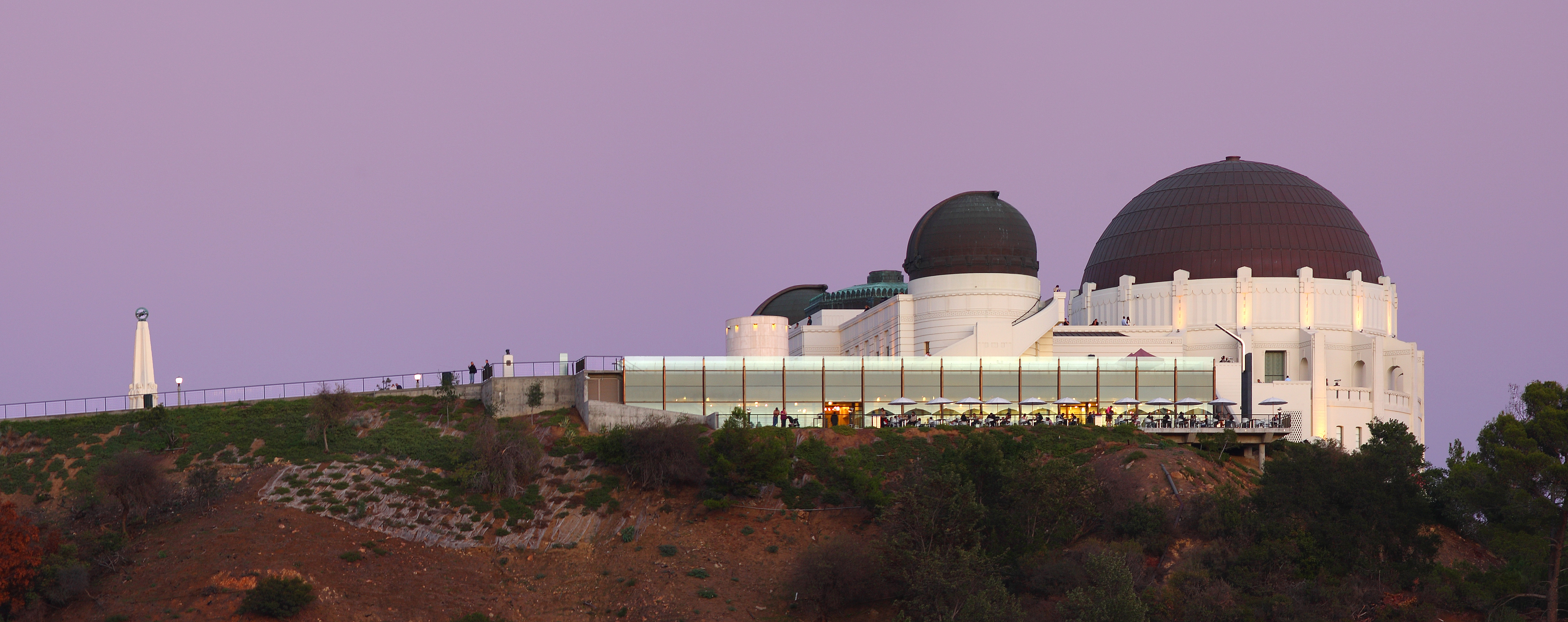 Griffith Observatory, Los Angeles, California - a side view at dusk. This is a two image stitch.